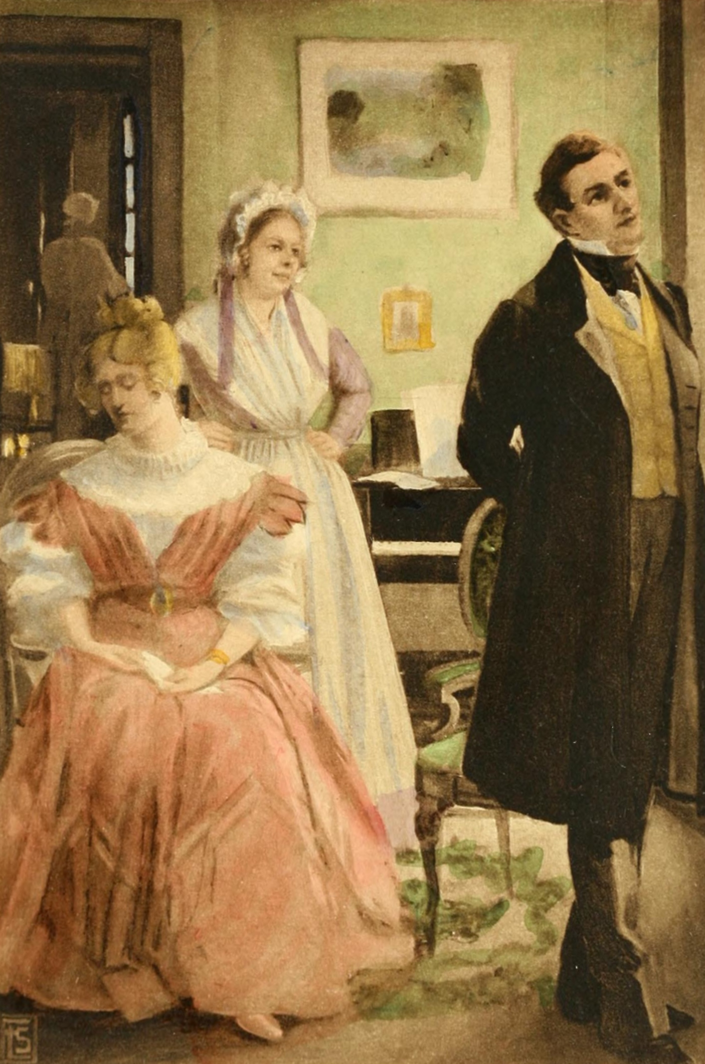 Rosamond Vincy and Tertius Lydgate from Middlemarch by George Eliot